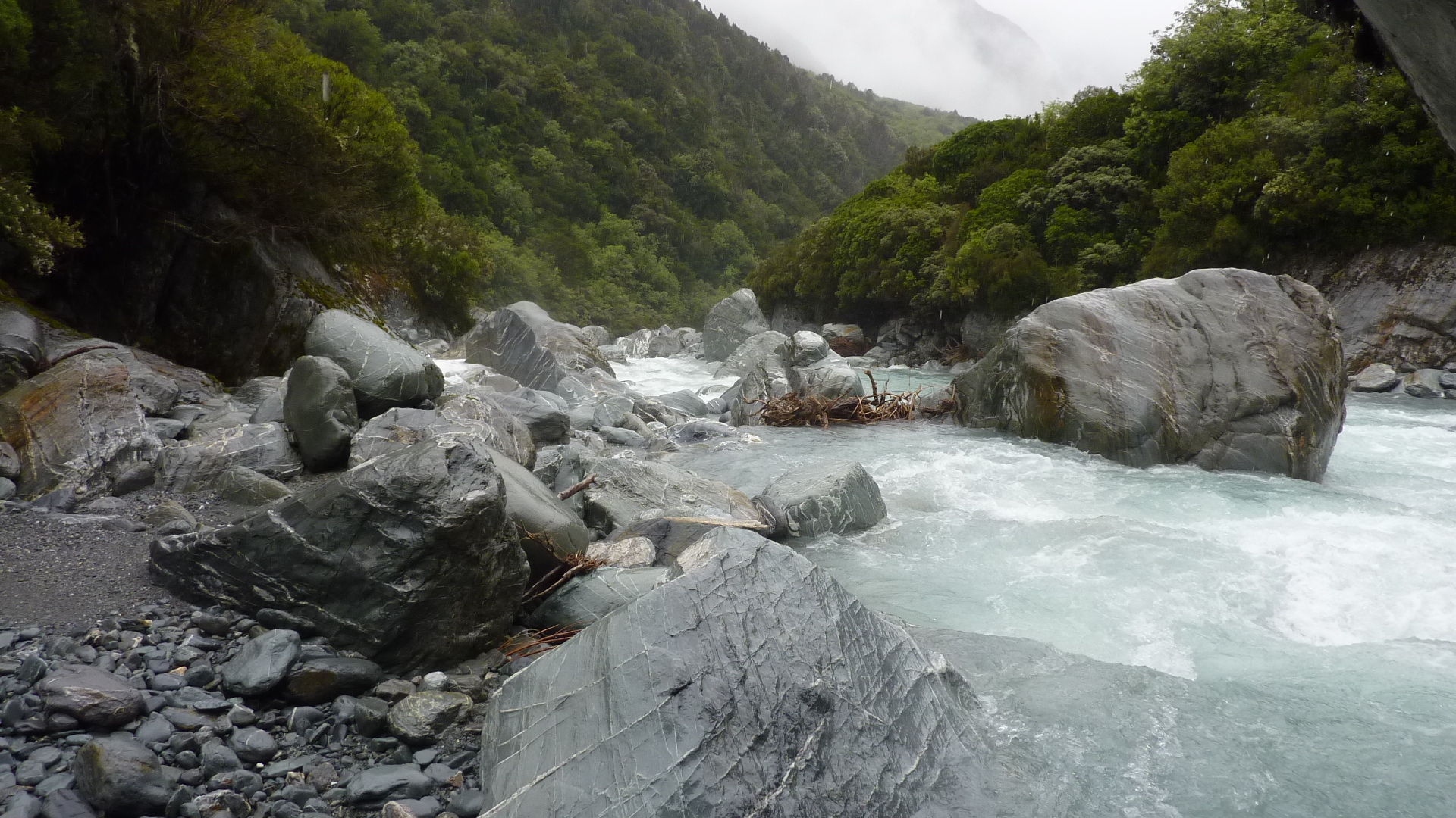 Upper Reaches of the Perth River, Westland, New Zealand / Aotearoa - below 'The Great Unknown' -43.346 Lat, 170.619 Lon